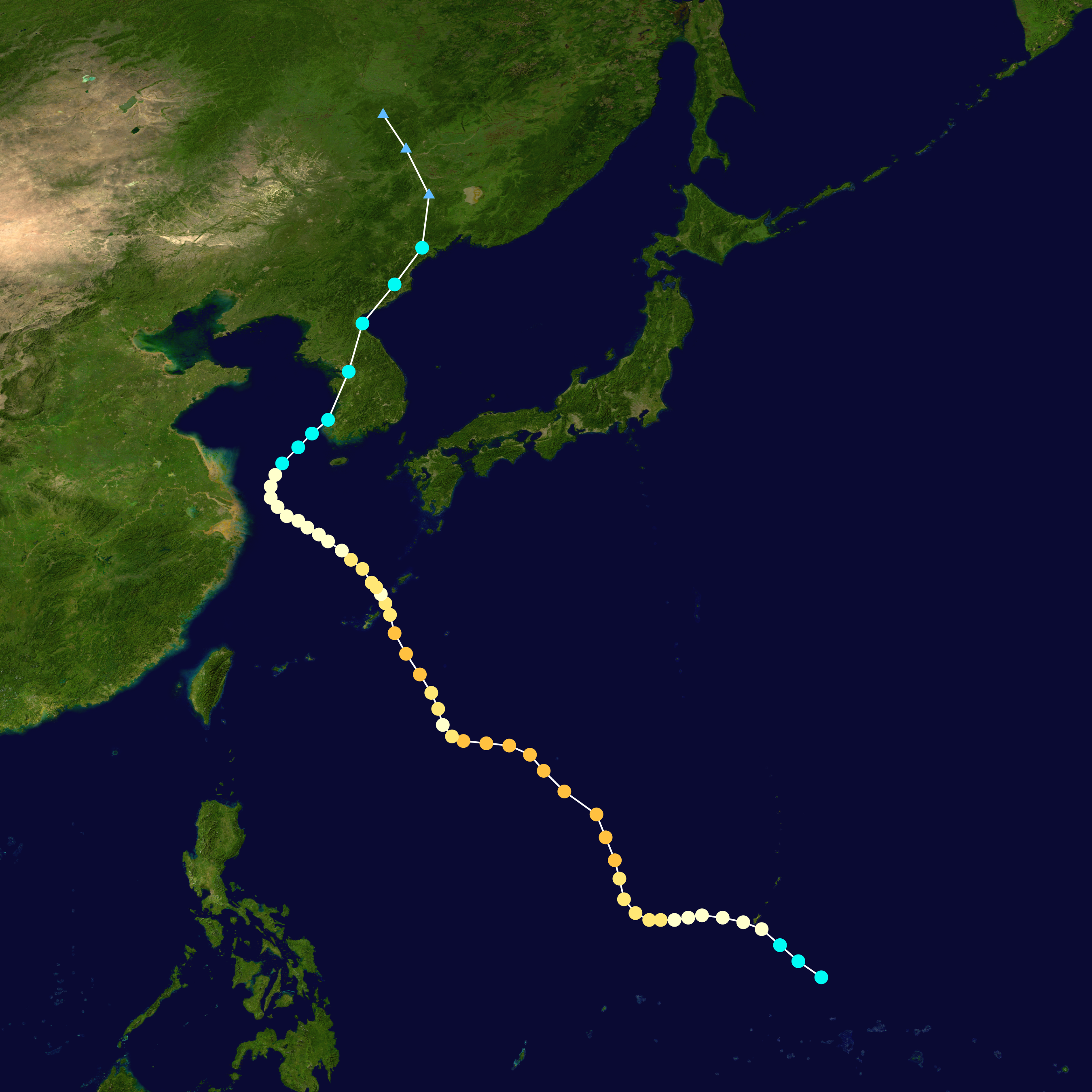 Typhoon Marge (1951) track. Uses the color scheme from the Saffir-Simpson Hurricane Scale.